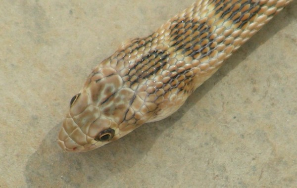 Glossy-bellied Racer, Coluber ventromaculatus, Family Colubridae, Serpentes This snake has been photographed in Pokaran, district Jaisalmer, Rajasthan, India by AshLin on 06 Jun 2006. This image shows a closeup of the head of the Glossy-bellied Racer. Own work. AshLin 18:21, 30 July 2006 (UTC)